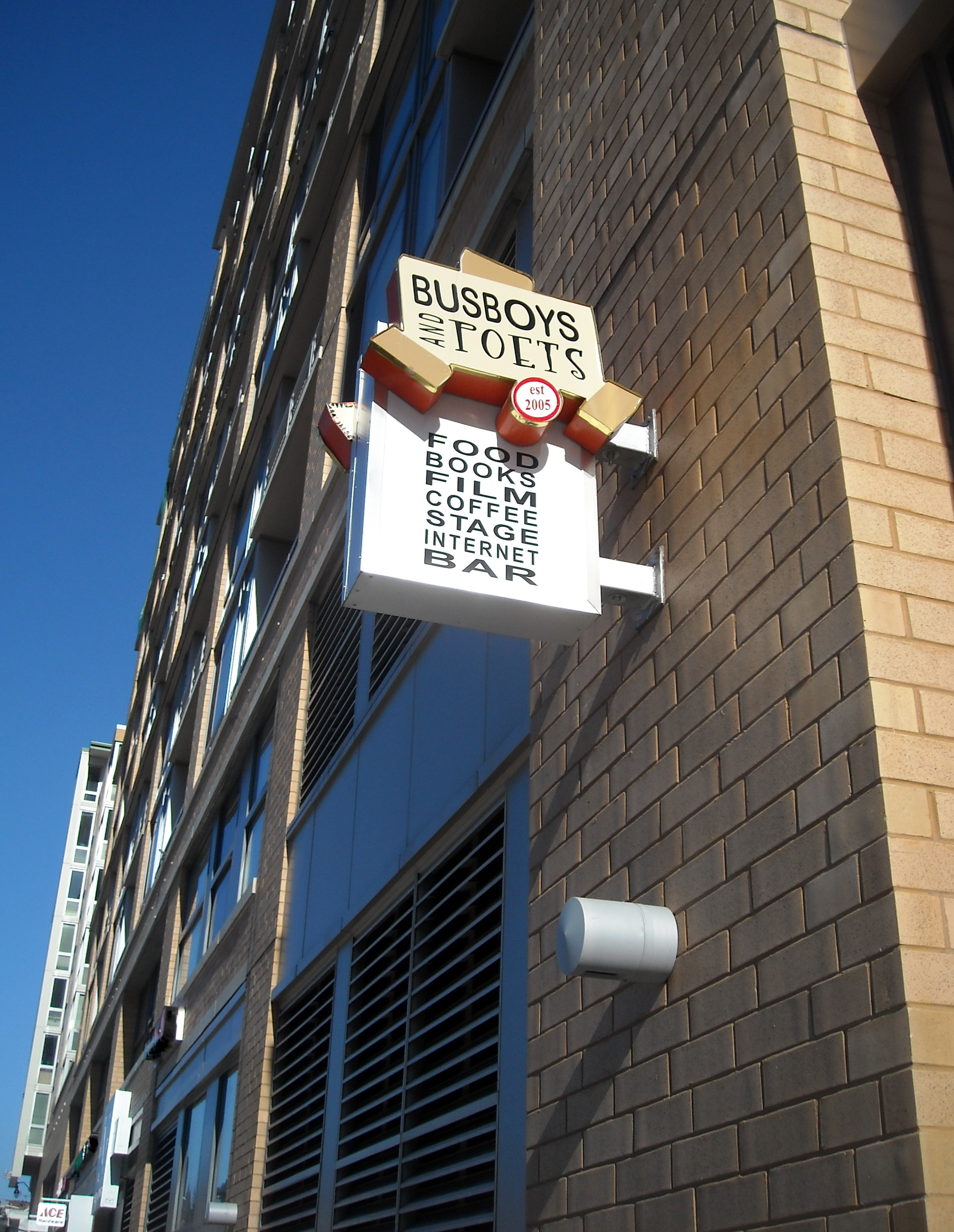 The entrance sign to Busboys and Poets restaurant at CityVista, a mixed-use development, located at 475 K Street, N.W., in the Mount Vernon Square neighborhood of Washington, D.C.